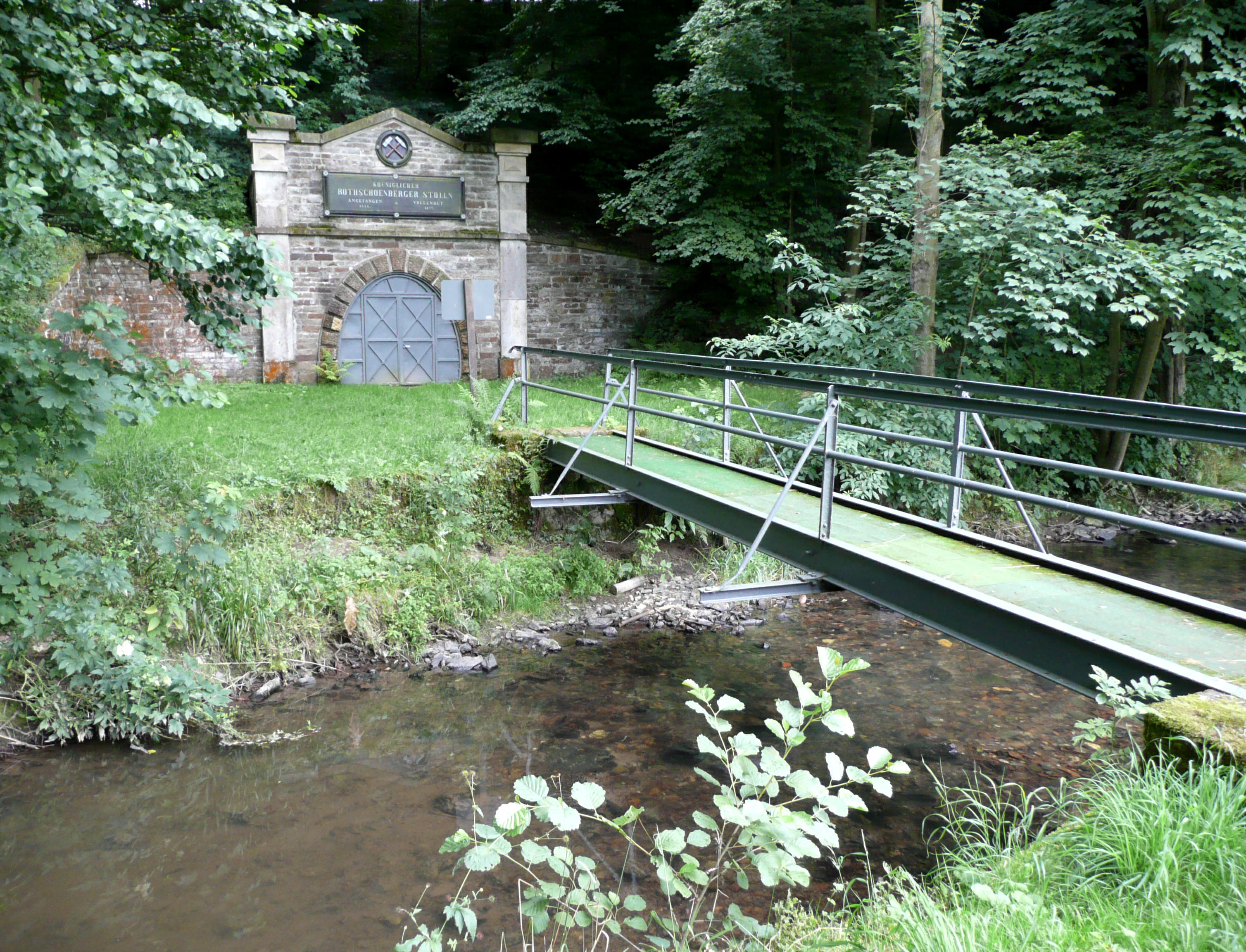 This image shows the main portal of the Rothschönberger Stolln near Rothschönberg (municipality Triebischtal). The Rothschönberger Stolln is a adit built from 1844 to 1877 with a total length of 50,9 km to dewater the silver mines in the mining district of Freiberg.